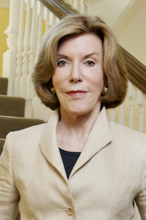 Photo of Mathea Falco.